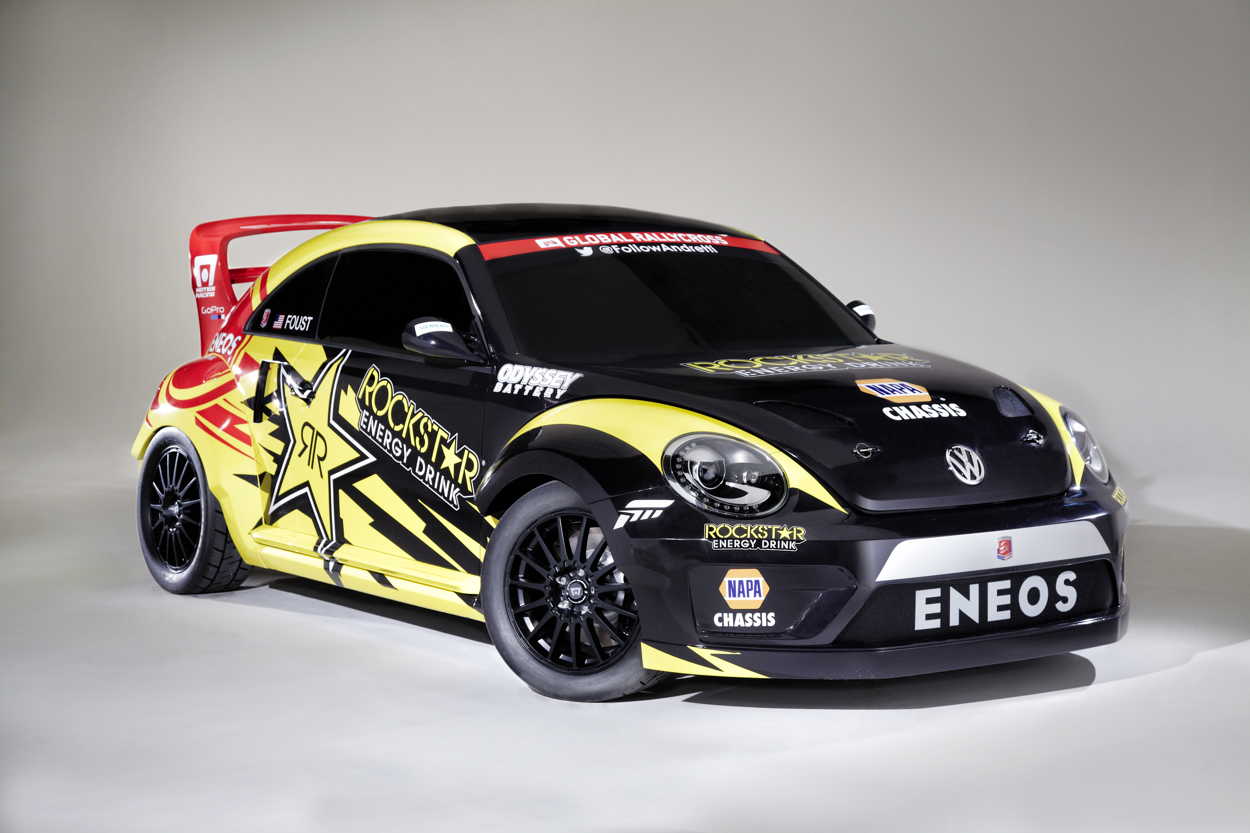 Tanner Foust's VW Beetle GlobalRallycross SuperCar.